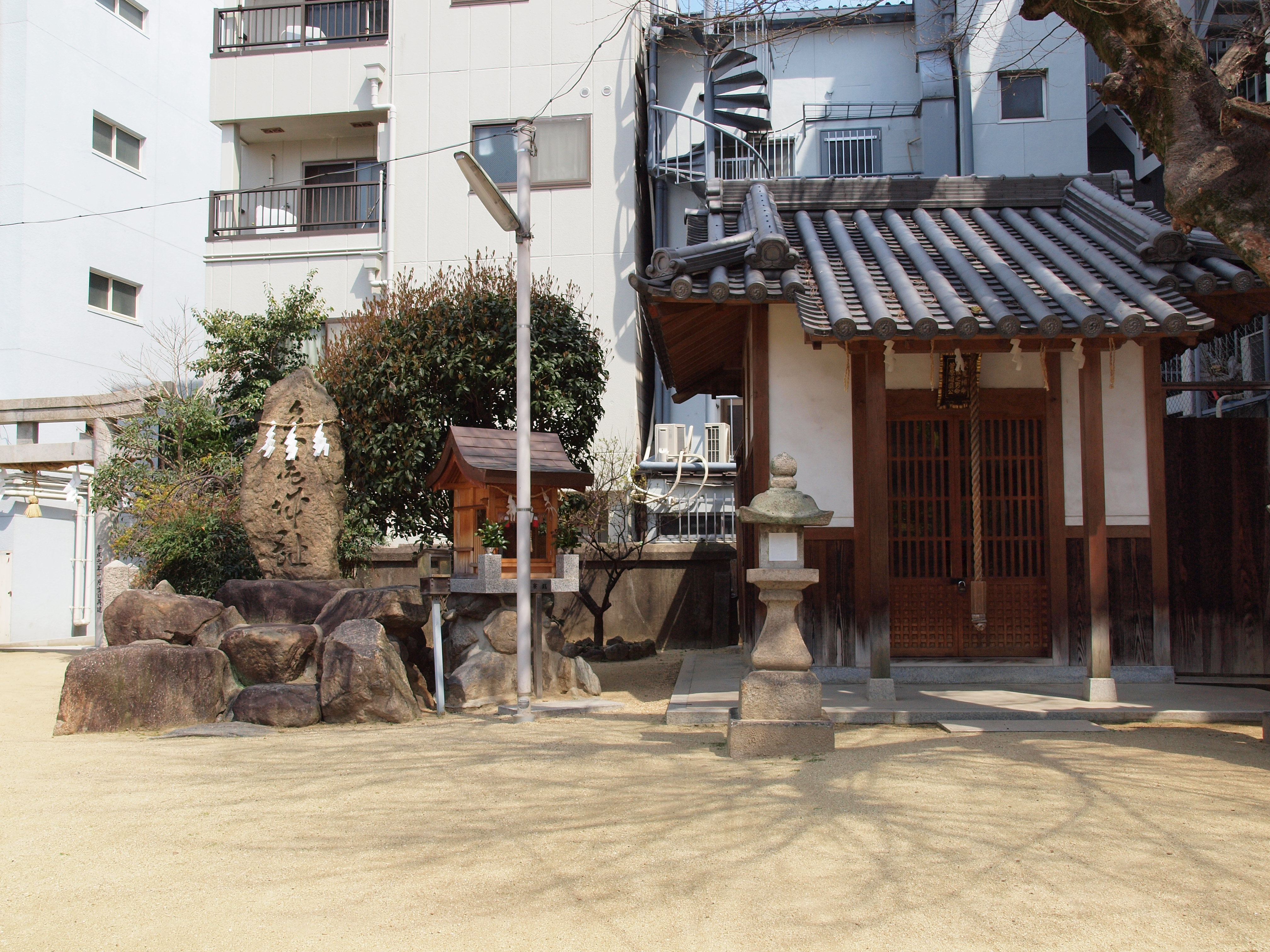 Yao Jinja (Shrine) in Yao, Osaka